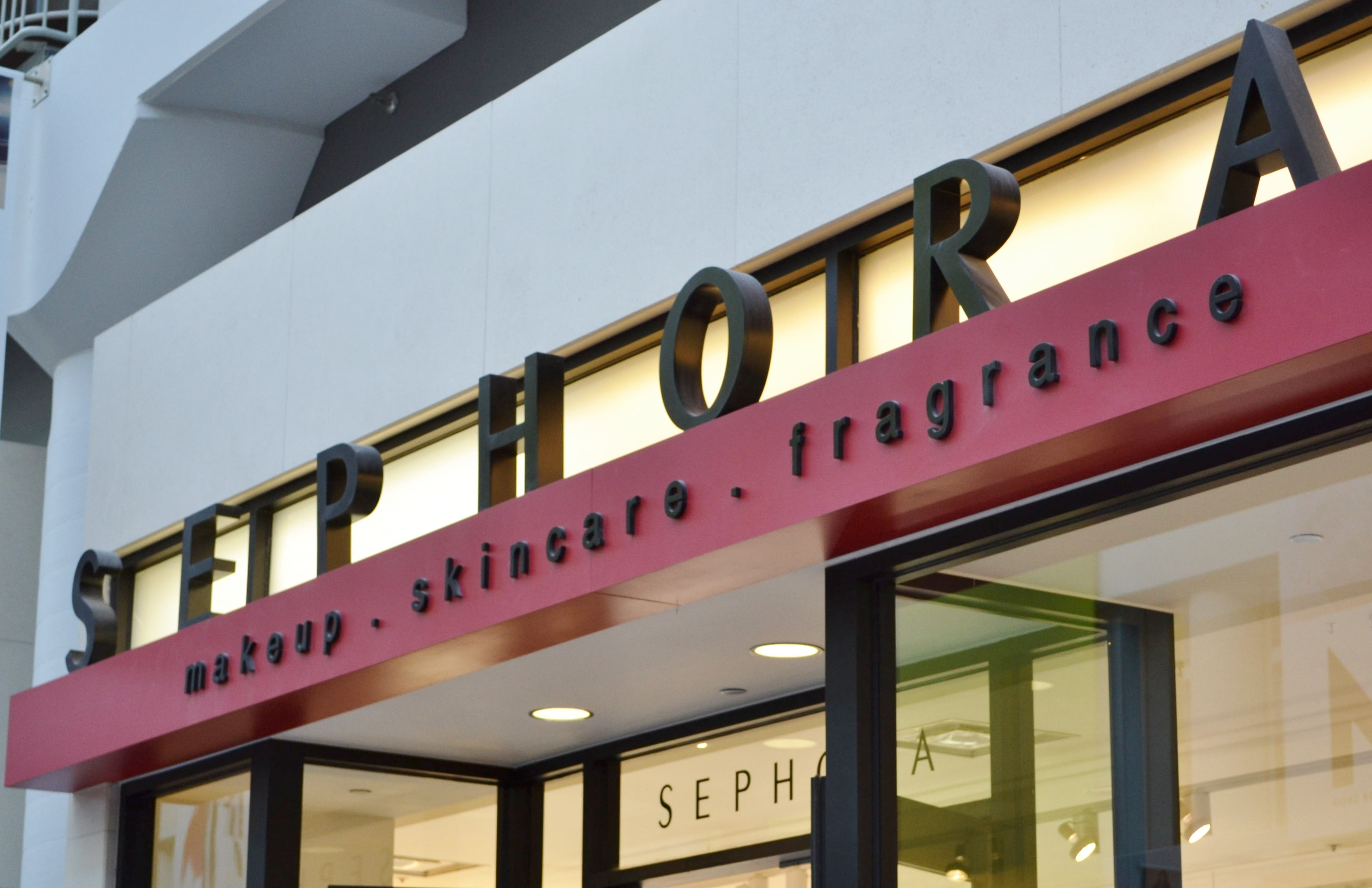 Sephora Store at Toronto Eaton Centre in Toronto, Ontario, Canada